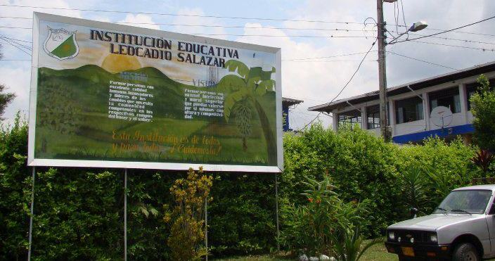 Institución Educativa Leocadio Salazar del Municipio de Ulloa.